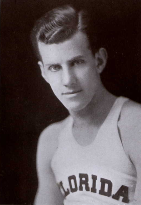 Photograph of Dale Waters